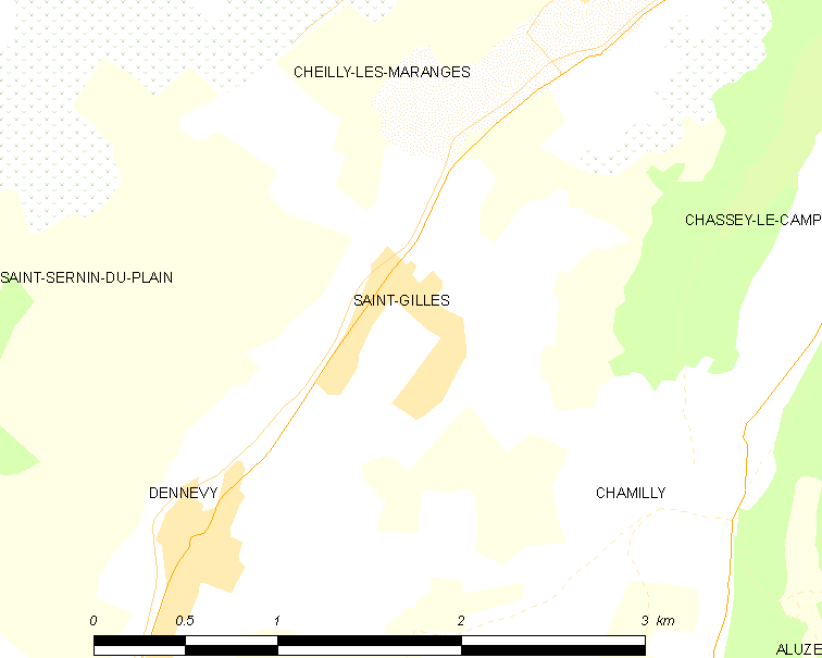 Map of French municipality